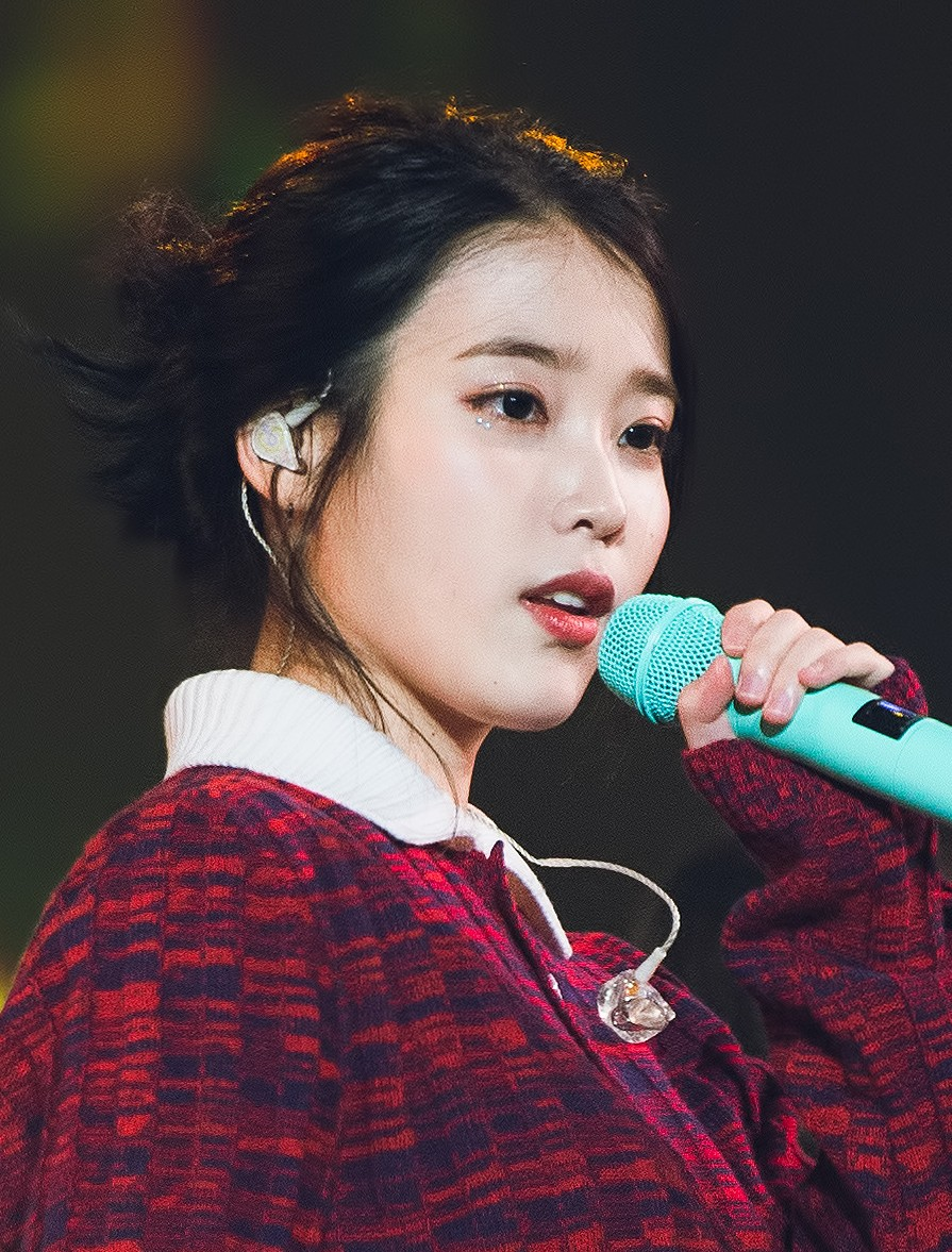 IU Gwangju concert, 10 November 2018